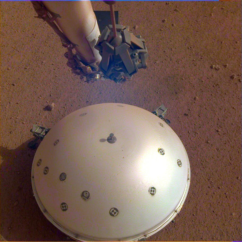 PIA23177: InSight's Seismometer on the Martian Surface This image shows InSight's domed Wind and Thermal Shield, which covers its seismometer. The image was taken on the 110th Martian day, or sol, of the mission. The seismometer is called Seismic Experiment for Interior Structure, or SEIS. JPL manages InSight for NASA's Science Mission Directorate. InSight is part of NASA's Discovery Program, managed by the agency's Marshall Space Flight Center in Huntsville, Alabama. Lockheed Martin Space in Denver built the InSight spacecraft, including its cruise stage and lander, and supports spacecraft operations for the mission. A number of European partners, including France's Centre National d'Études Spatiales (CNES) and the German Aerospace Center (DLR), are supporting the InSight mission. CNES provided SEIS to NASA, with the principal investigator at IPGP (Institut de Physique du Globe de Paris). Significant contributions for SEIS came from IPGP; the Max Planck Institute for Solar System Research (MPS) in Germany; the Swiss Federal Institute of Technology (ETH Zurich) in Switzerland; Imperial College London and Oxford University in the United Kingdom; and JPL. DLR provided the Heat Flow and Physical Properties Package (HP3) instrument, with significant contributions from the Space Research Center (CBK) of the Polish Academy of Sciences and Astronika in Poland. Spain's Centro de Astrobiología (CAB) supplied the temperature and wind sensors. For more information about the mission, go to